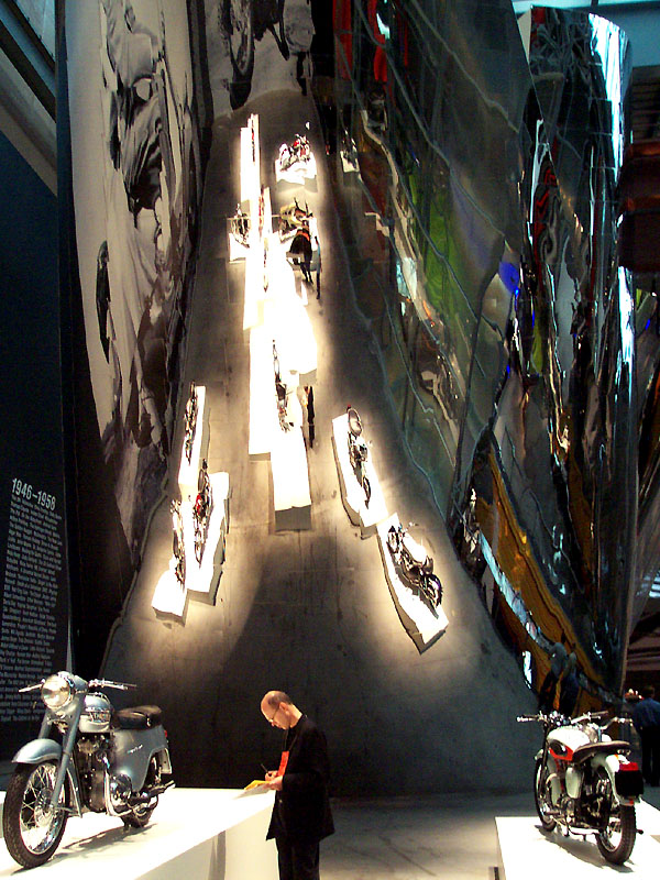 "The Art of the Motorcycle" at the Rem Koolhaas-designed Guggenheim Las Vegas. The museum is now partially defunct: The "big box" space, where these bikes were displayed, was closed several years ago, though the smaller GuggenheimHermitage gallery space remains. The exhibition's distinctive metalwork was designed by Frank Gehry.